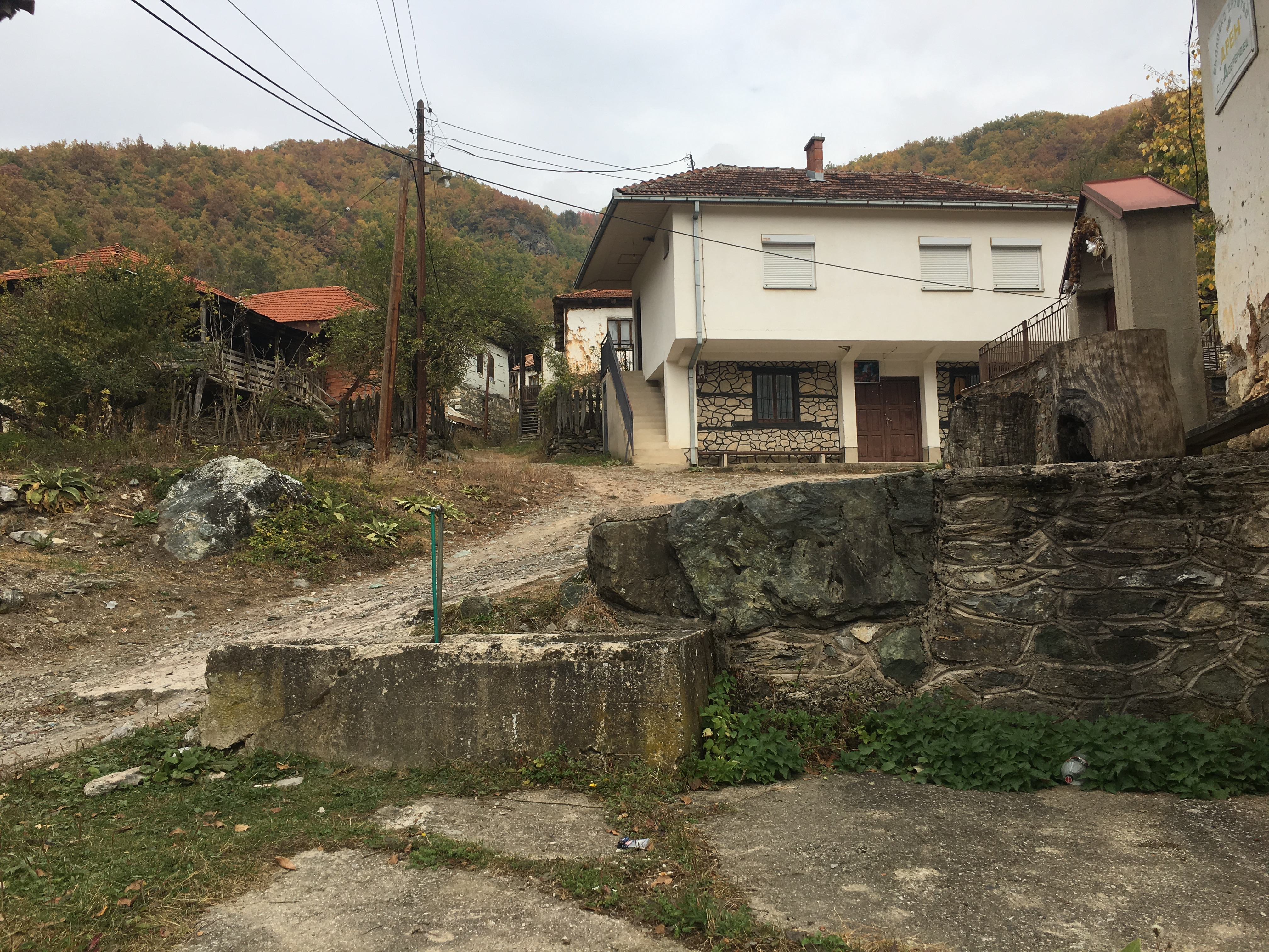 Wikiexpedition to Kopačka